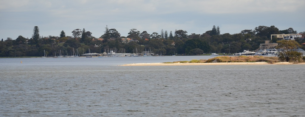 Point Currie (aka Pelican Point) the eastern end of the Pelican Point ConservationArea, also the northern edge of the Swan Estuary Marine Park section on the western shore of the Melville Water part of Swan River.. the yacht club in rear of picture is the Nedlands Yacht Club on the Esplanade in Dalkeith, Western Australia